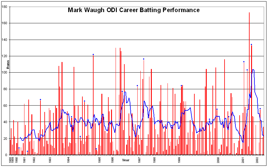 ODI batting chart for Mark Waugh. Blue line is an average for ten most recent innings, blue dots are not outs. Bars are runs scored